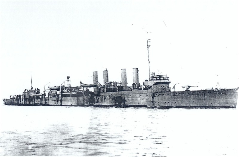 The U.S. Navy destroyer USS Clemson (DD-186), circa in 1919.